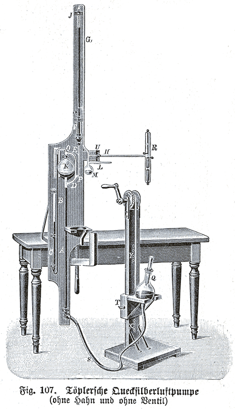 Toepler mercury air pump (Toeplersche Quecksilberluftpumpe)